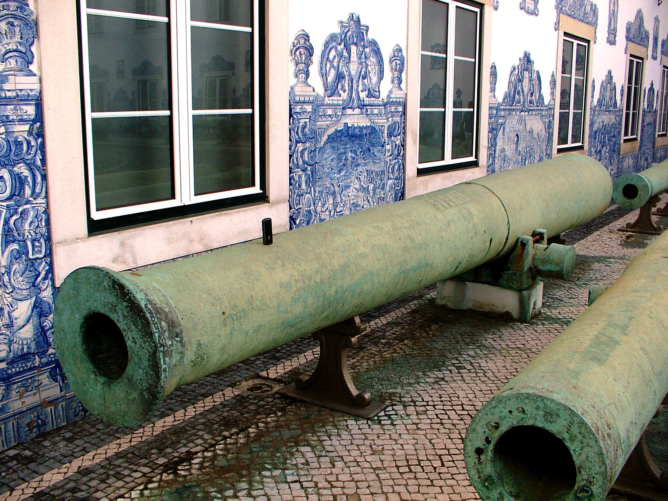 Front view of the Tiro de Diu